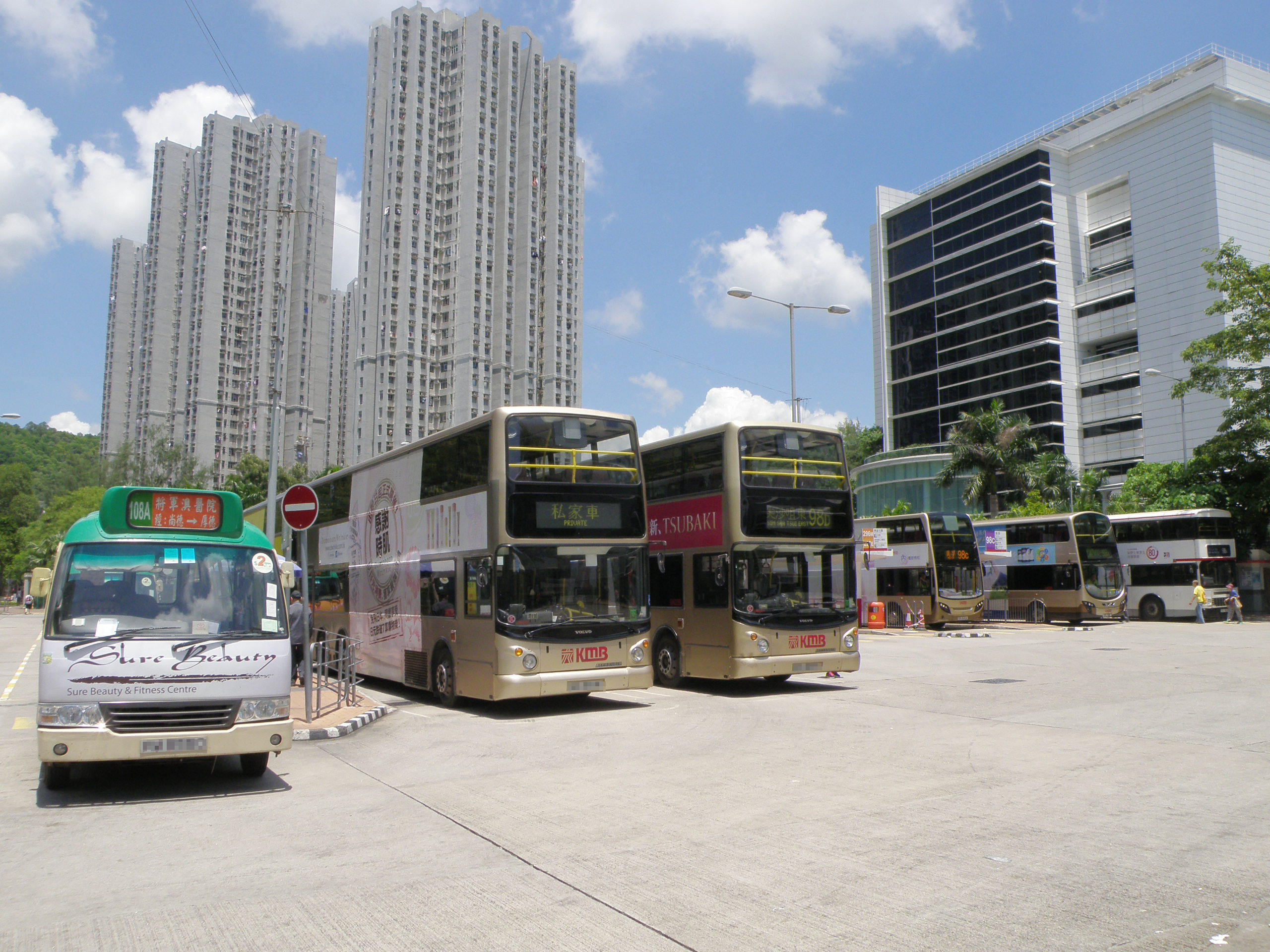 Hang Hau (North) Public Transport Interchange in Tseung Kwan O, Hong Kong.